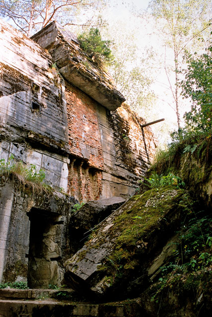 Wolfsschanze, one of Adolf Hitler's headquarters during WWII.